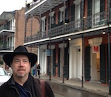 in New Orleans